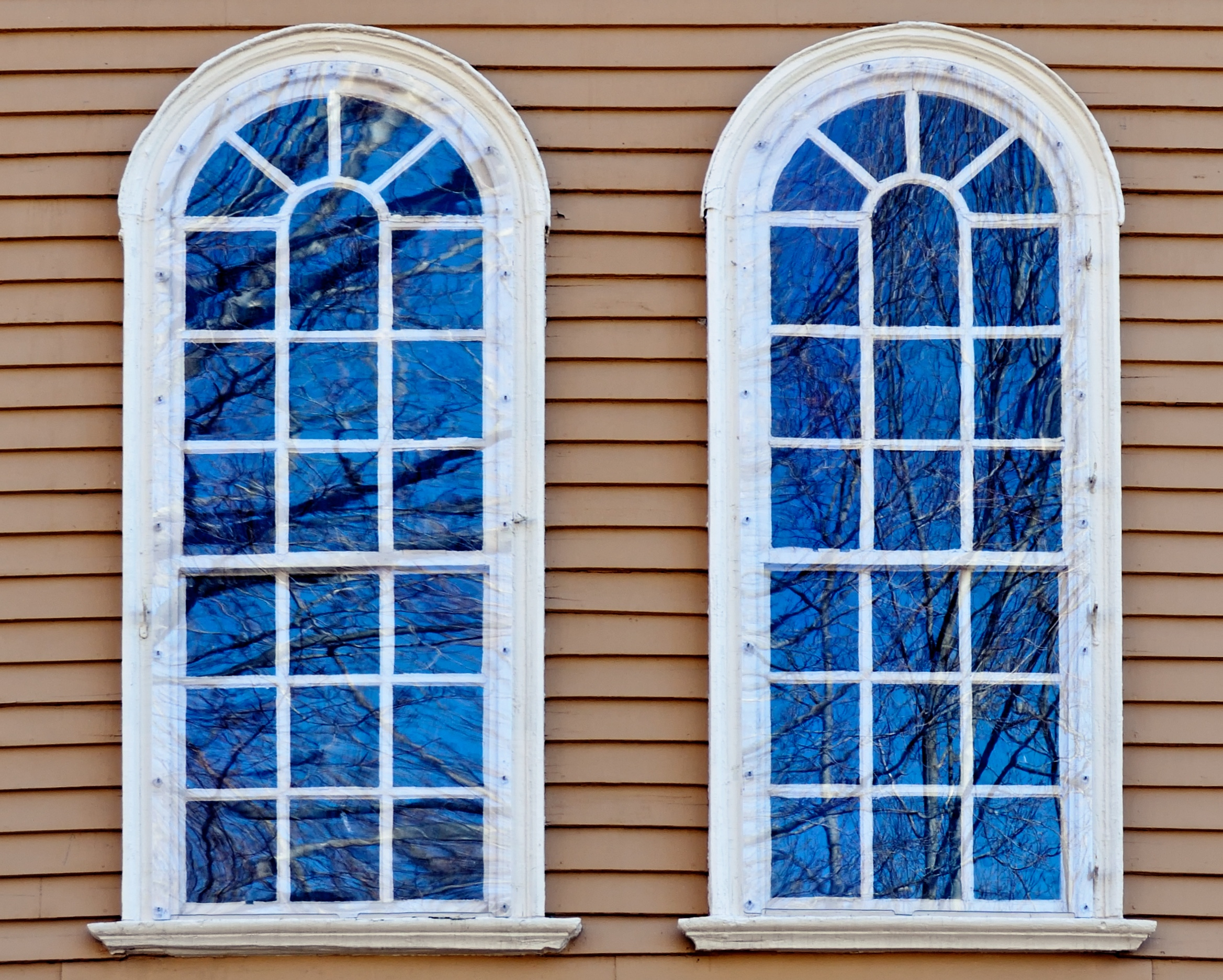 Pair of windows with reflections, Old Ship Church, Hingham, Massachusetts